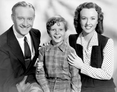 Promotional photograph for the 1945 film, Adventures of Rusty Subjects of the photograph are Conrad Nagel, Ted Donaldson and Margaret Lindsay.